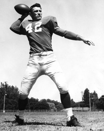 American football player Charlie Conerly, during his tenure on the NY Giants.